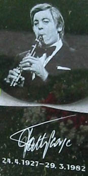 Cropped version of Image:Zentralfriedhof Fatty George.jpg